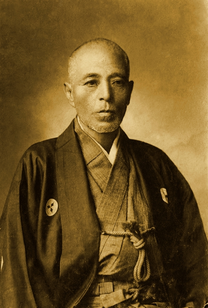 Goro Fujita a.k.a. Hajime Saito. This image was taken on November 14, 1897 and was published by his descendants on July 15, 2016.